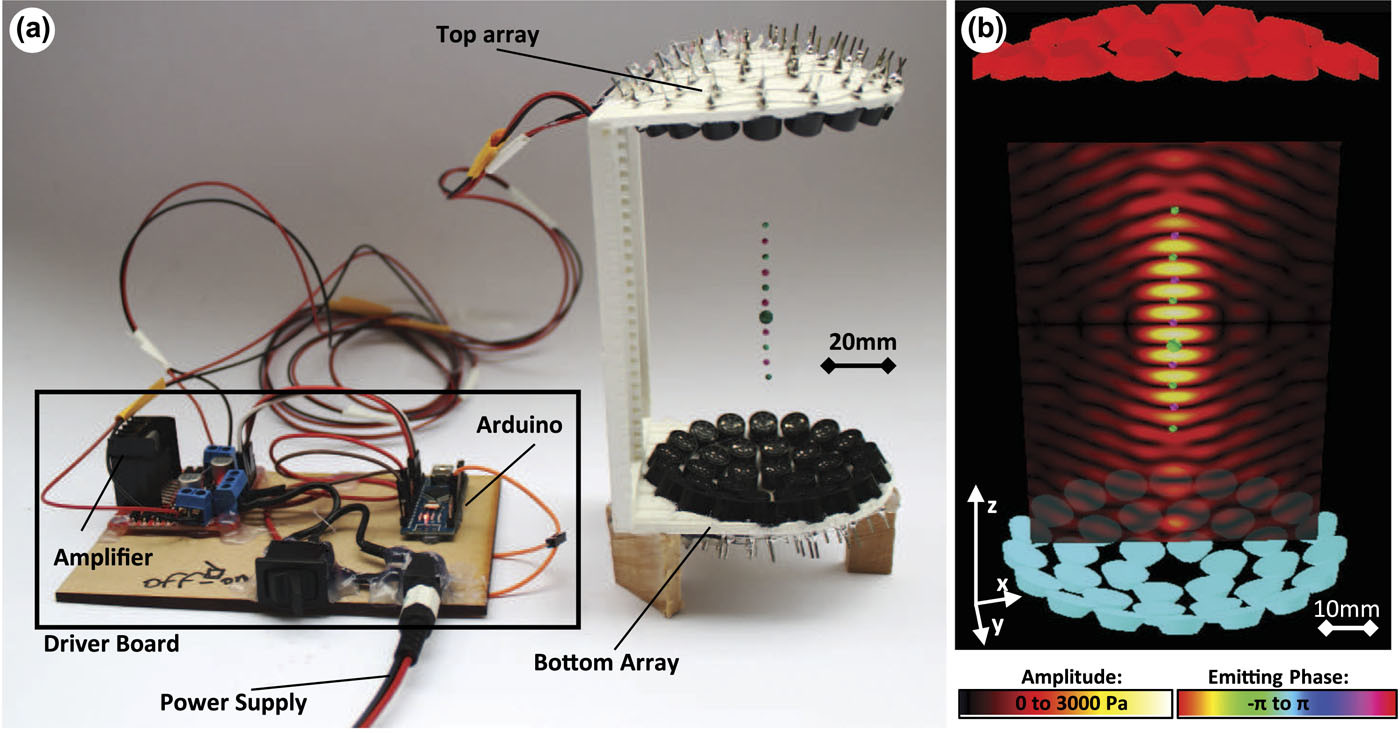 (a) A TinyLev system with the driver board and the single-axis acoustic levitator. The levitator is made of a 3D printed frame with 72 transducers arranged on two surfaces (36 transducers on each surface) focused at a central point. This creates a a standing wave arrangement which here levitated expanded polystyrene particles at the nodes. (b) Is a simulation of the acoustic pressure field. Each circle represents a 10mm diameter transducer and the colour is their emitting phase. In this case the phases are pi radians out of sync.